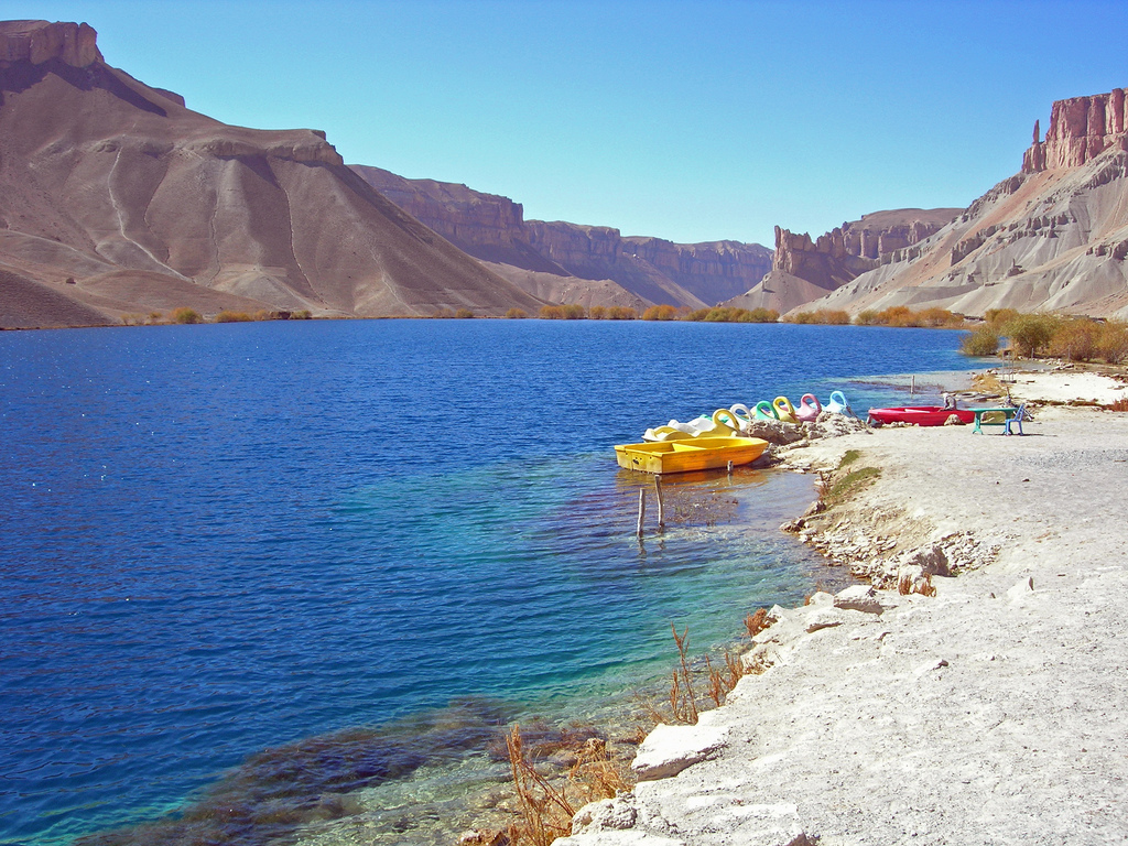 Band-e-amir is a series of deep blue lakes nestled amidst limestone canyons. This is Afghanistan’s Grand Canyon, truly a sight inspiring of awe.